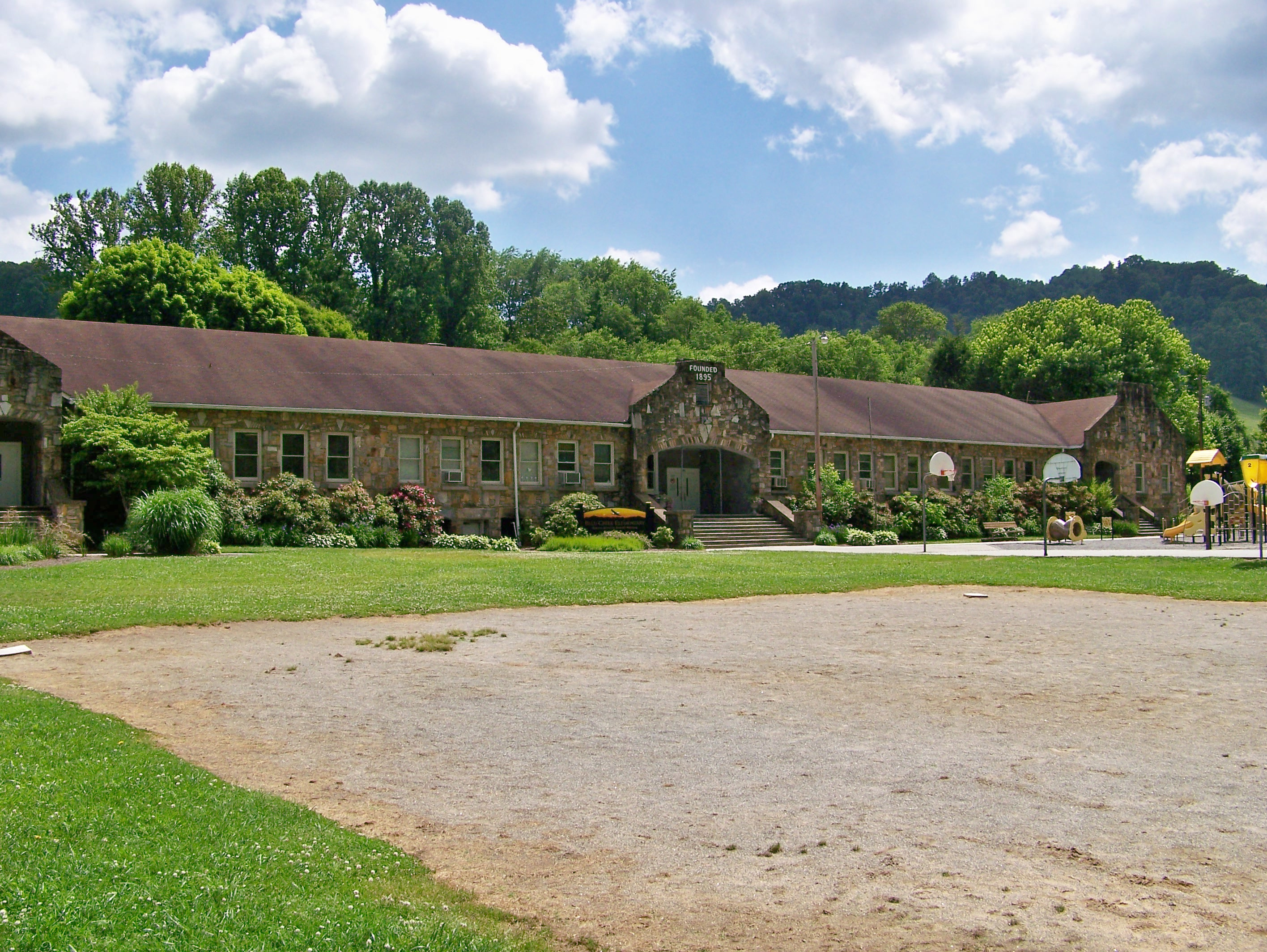 Bald Creek Historic District Part of the Bald Creek Historic Distrct